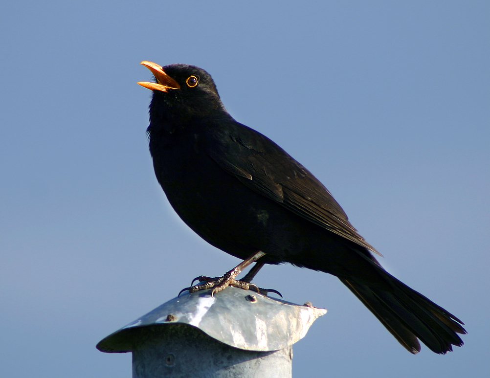 Blackbird (Turdus merula), singing male. Bogense havn, Funen, Denmark.